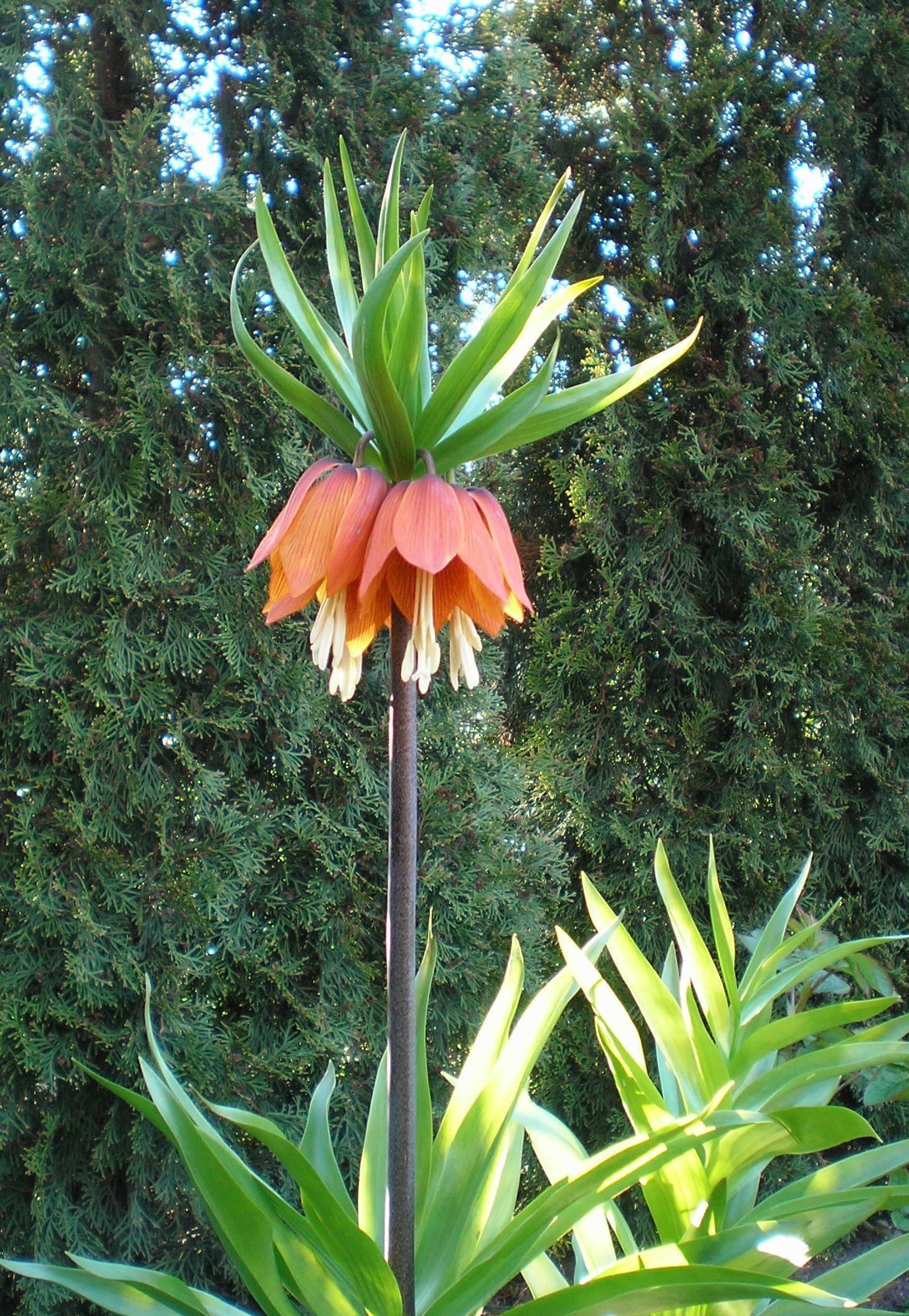 The Crown imperial